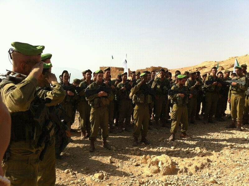 After 8 months of rigorous training, the young recruits of the Nahal Brigade complete the traditional 54 km march and get their green beret. The Israel Defense Forces Facebook The Israel Defense Forces blog The Israel Defense Forces website The Israel Defense Forces Twitter